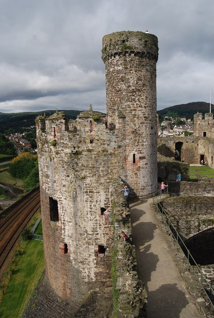 Conwy Castle - BakehouseTower